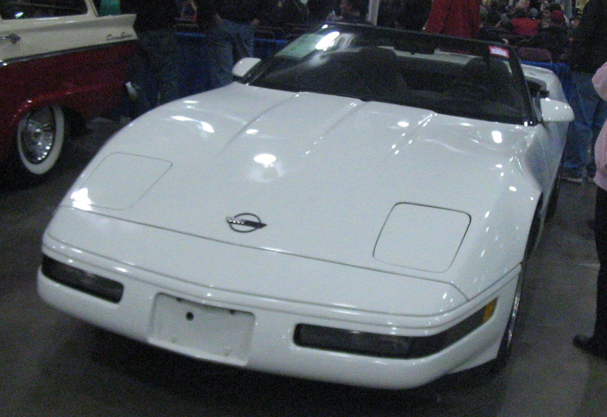 1996 Chevrolet Corvette photographed in Mississauga, Ontario, Canada at the Toronto Classic Car Auction of spring 2012.